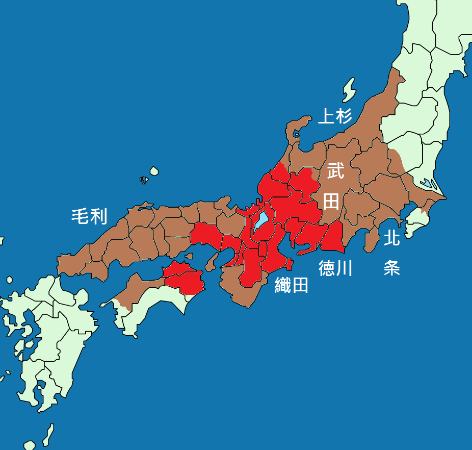 Edited from Maps_of_the_former_provinces_of_Japan